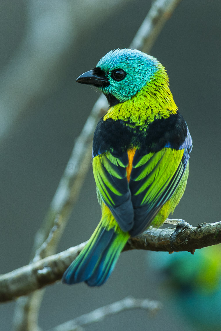 Green-headed Tanager - Itatiaia - Brazil_MG_0114